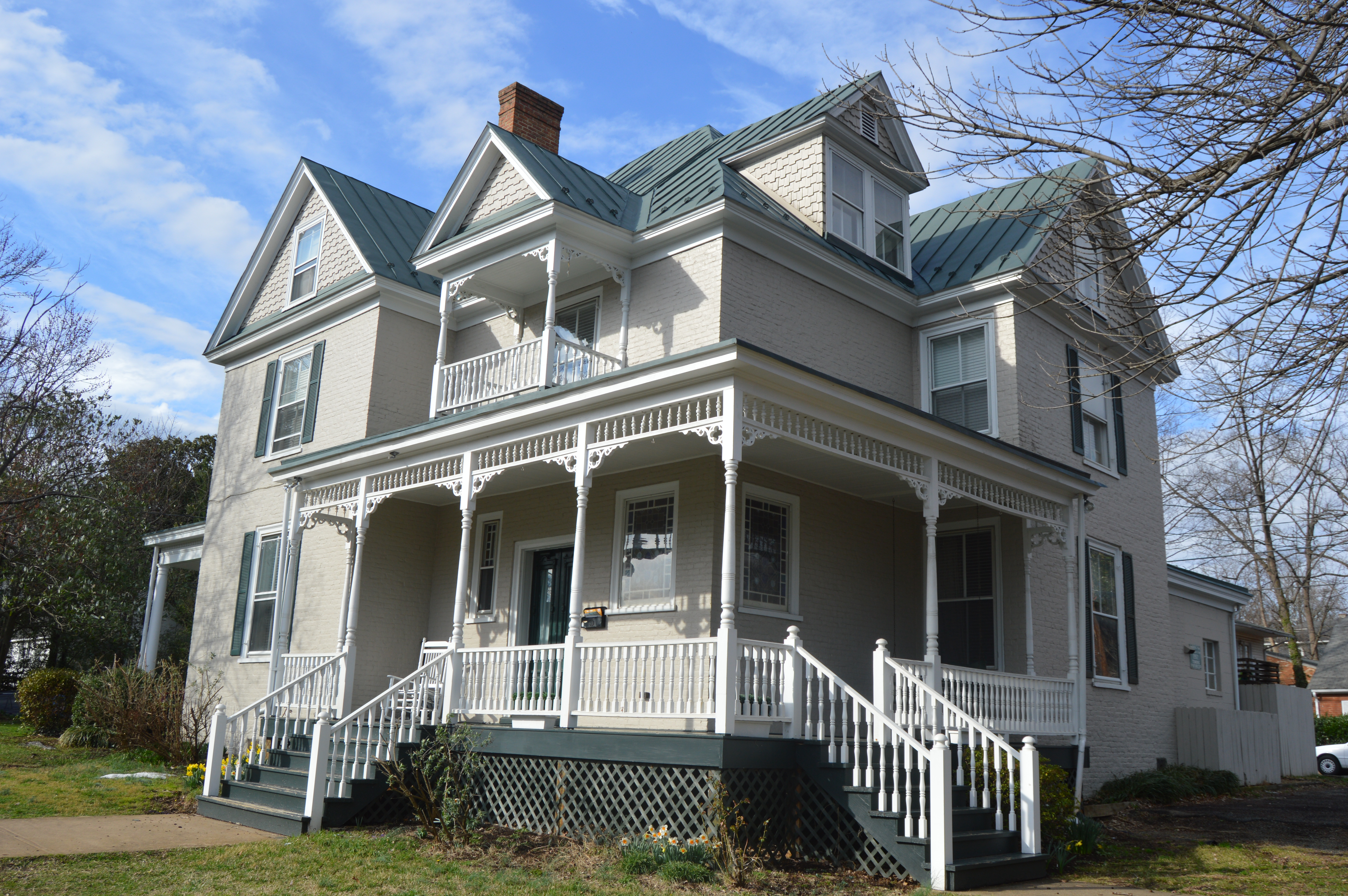 Front and western side of the Turner-LaRowe House, located on the western end of University Court in Charlottesville, Virginia, United States. Built in 1892, it is listed on the National Register of Historic Places.